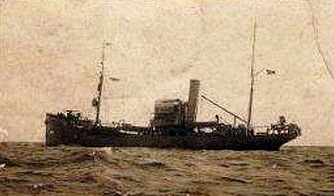 Period photo of the naval trawler, NRP Augusto de Castilho, sunk by U-139 on October 14, 1918.